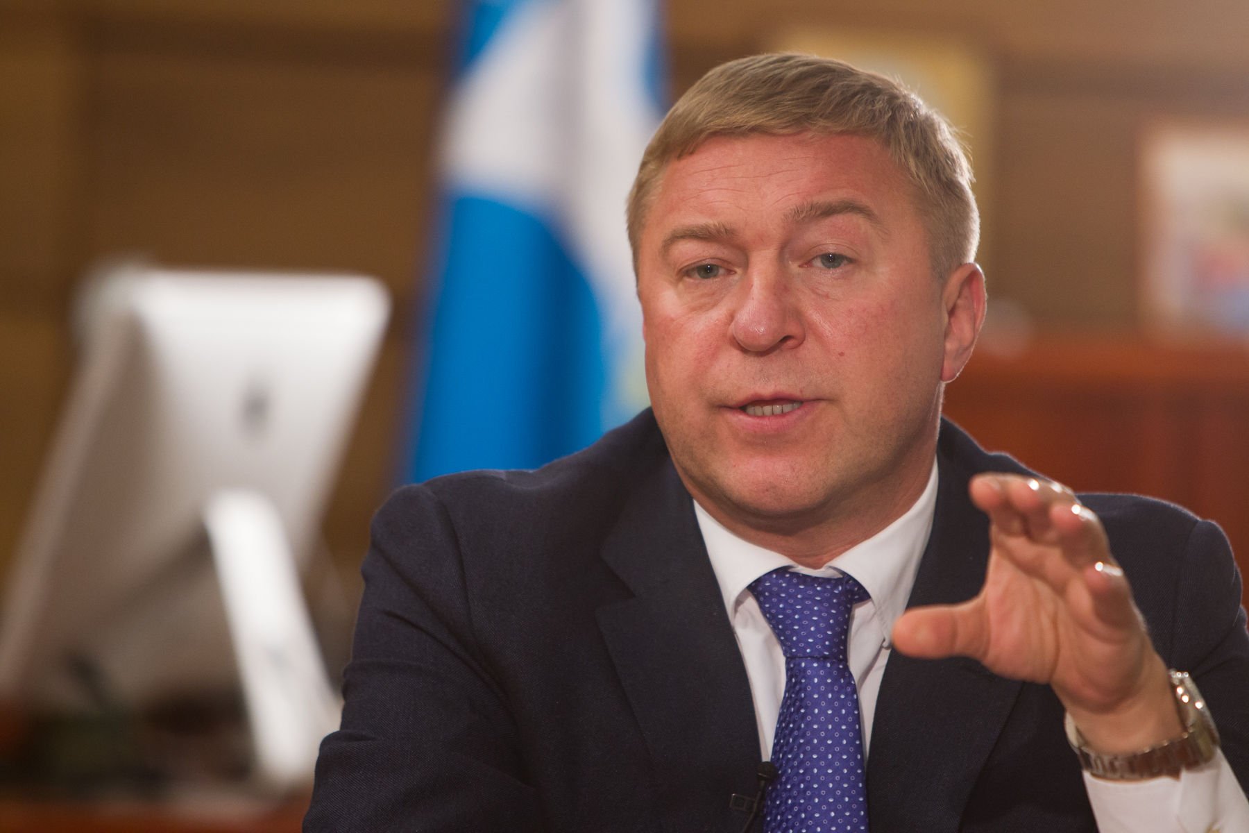 Alexander G. Yarashuk (2015-11-06)